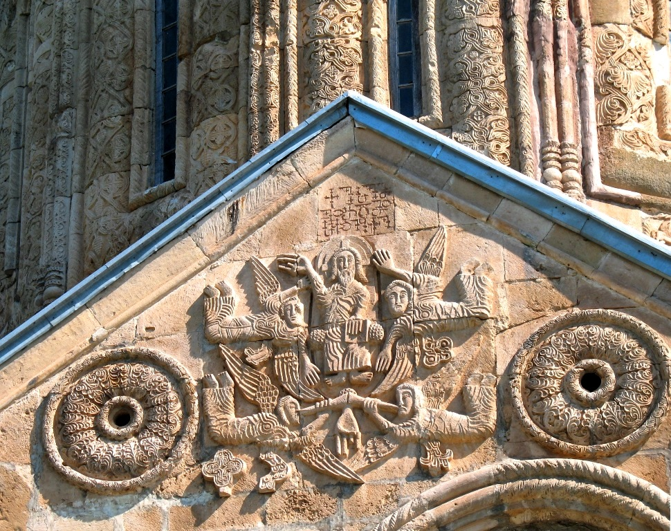 Nikortsminda Cathedral